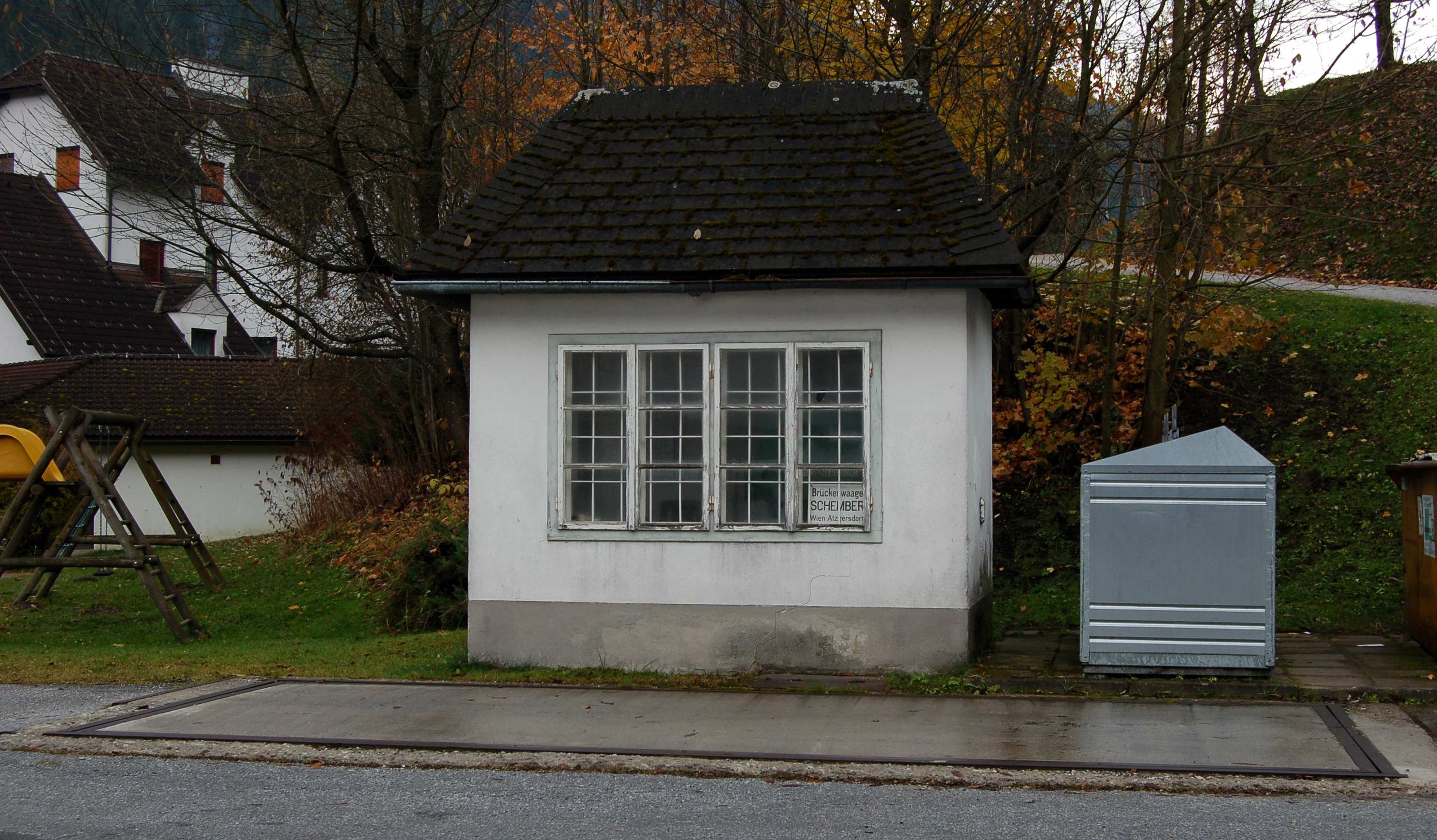 Weigh bridge manufactured by C. Schember & sons in Ratten, Styria, Austria.